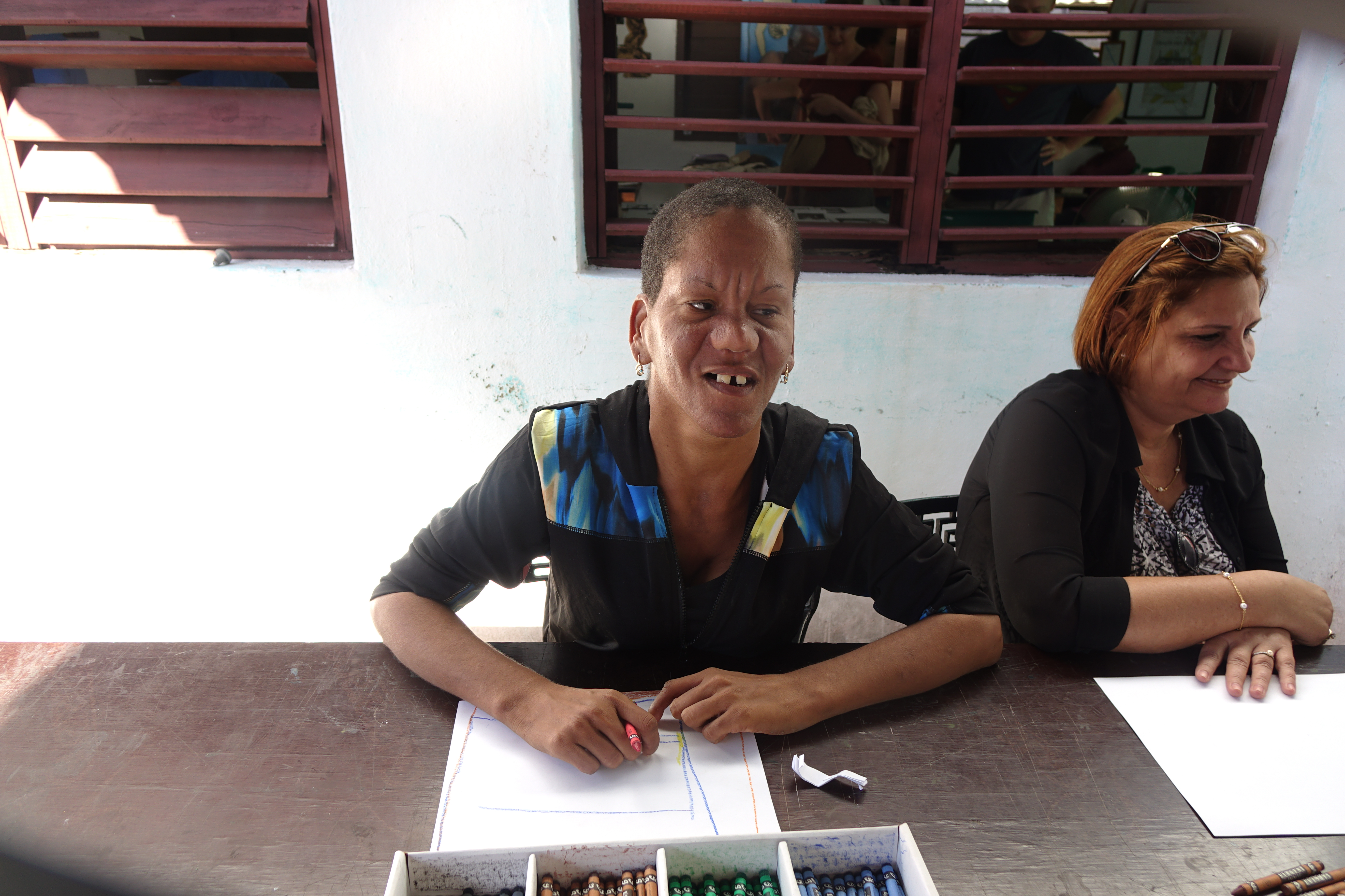 This center is run by a non profit and teaches art to the handicapped.